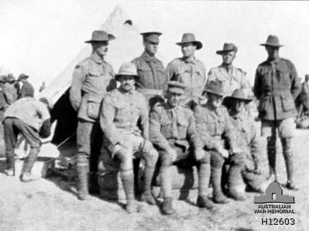 Officers from the Australian 5th Battalion who were transferred to the newly raised 57th Battalion, Egypt, February 1916